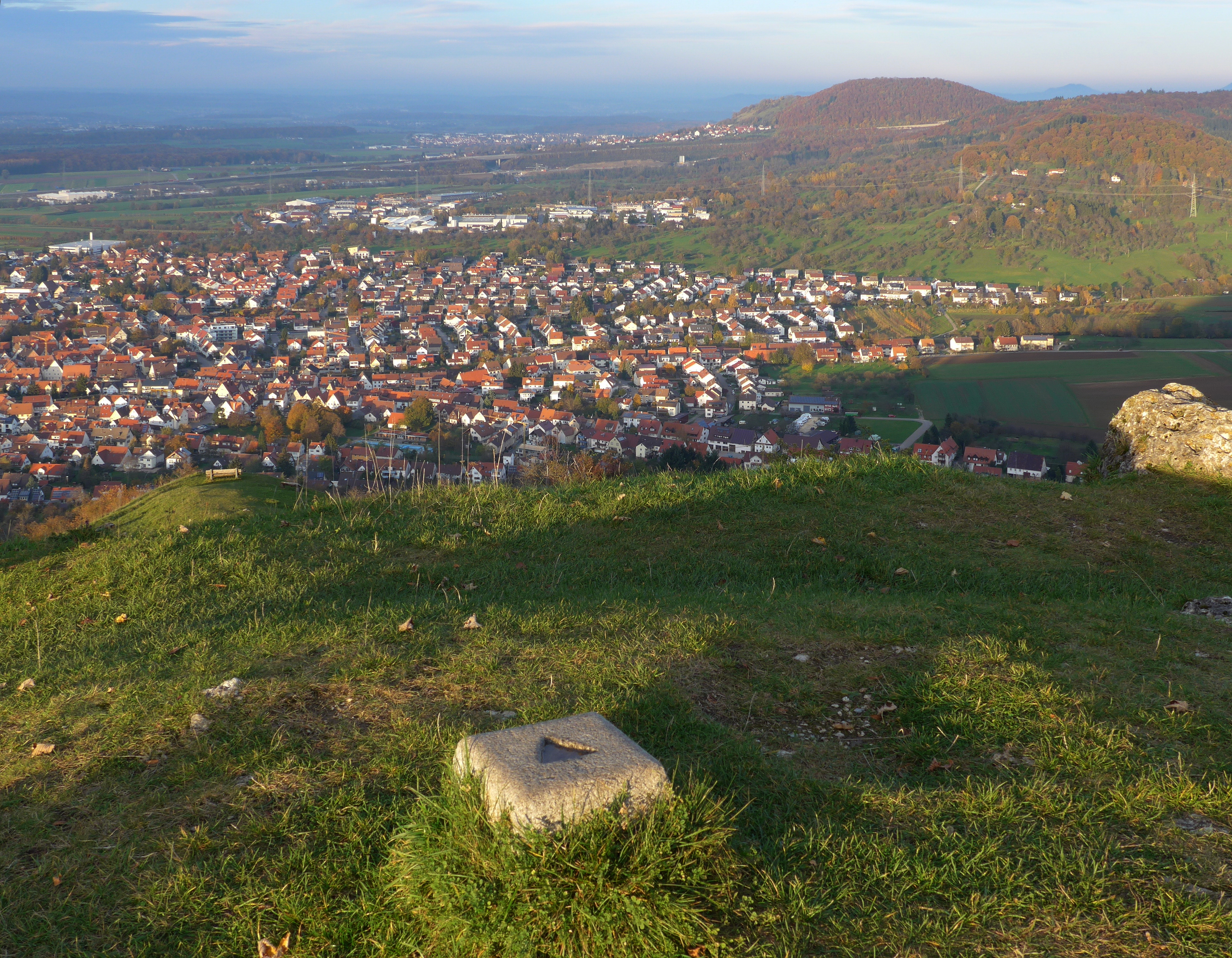 View from Limburg mountain towards Weilheim an der Teck, Germany. On the summit there’s a triangulation point visible in the foreground.